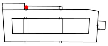 Location of the chapel Ammannati in the Camposanto Monumentale of Pisa